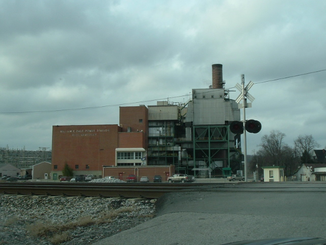 Dale Power Plant near Boonesboro